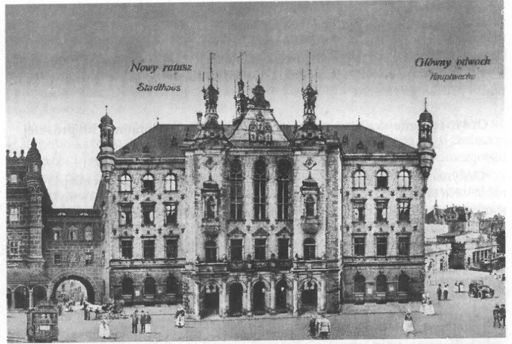 New Town Hall in Poznan